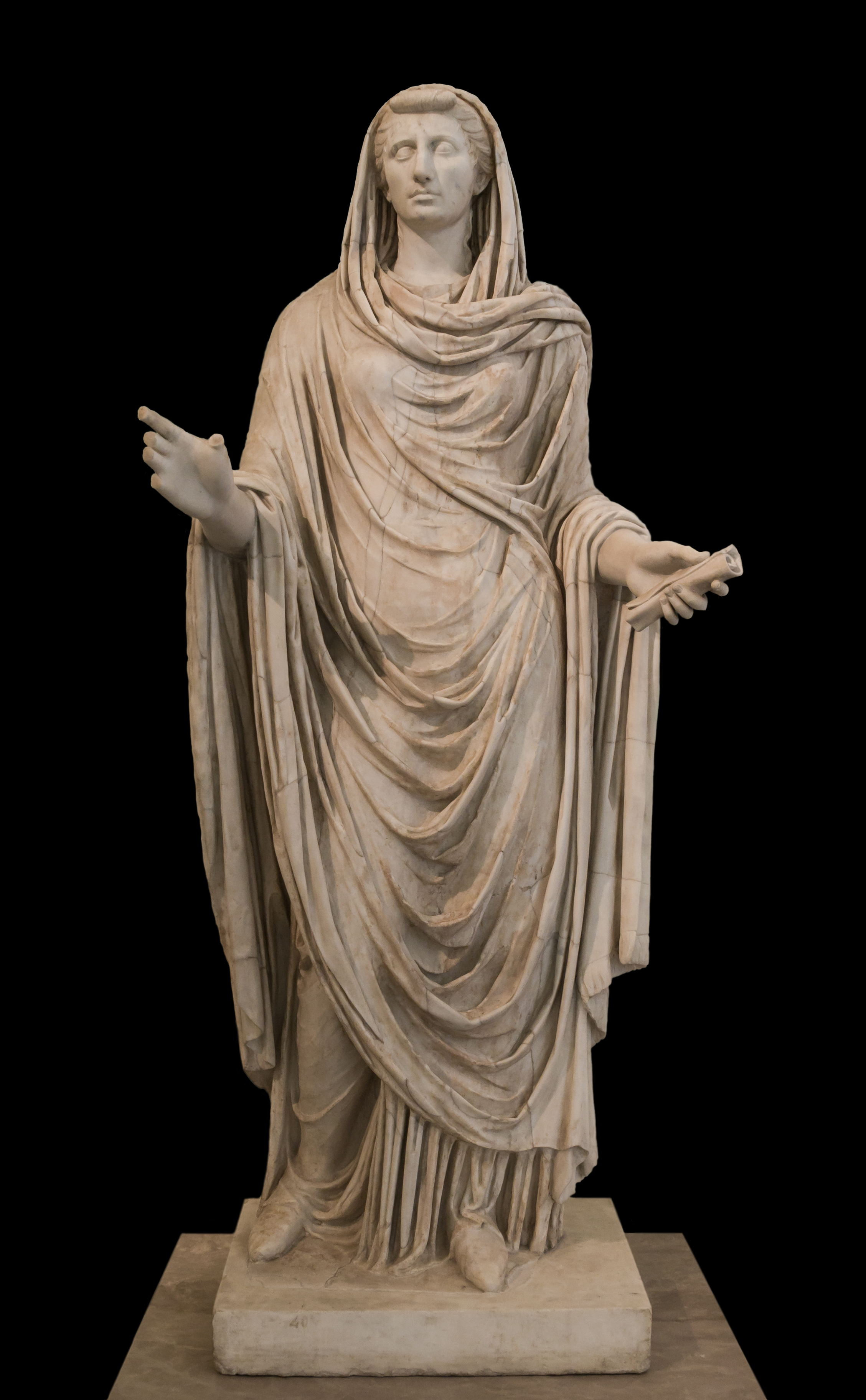 Octavia minor or Sibyl Farnese. National Archaeological Museum, Naples. Italy. Statue of Octavia the younger (sister of Augustus), the so-called Sybil. Marble. Beginning of the first century CE. Farnese collection. Naples, Italy.